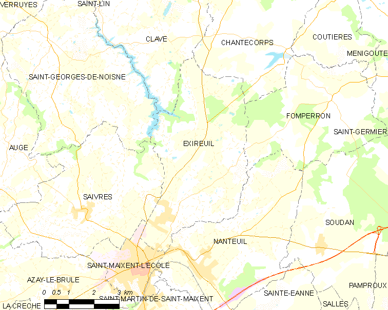 Map of French municipality Exireuil